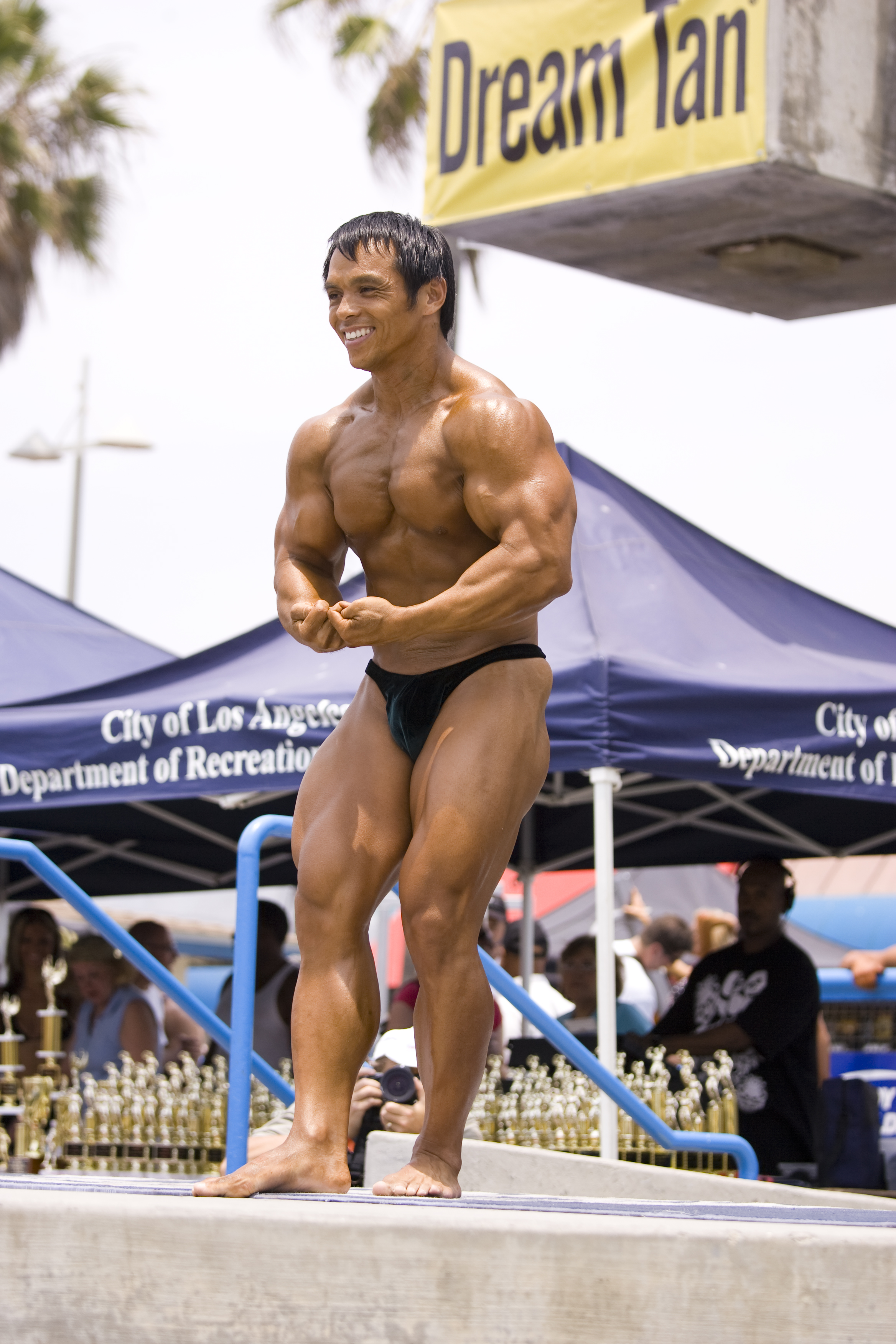 bodybuilder at Venice Beach